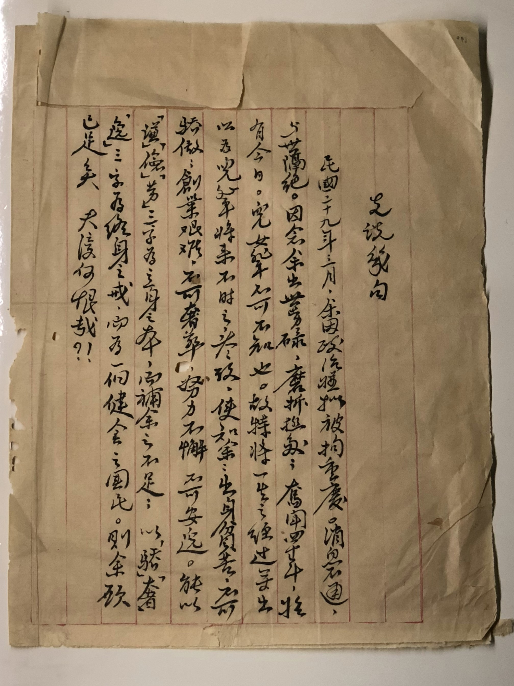 Autobiography by Che Yaoxian in prison.